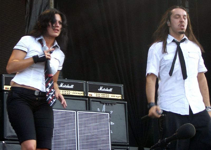 Cristina Scabbia and Andrea Ferro at Ozzfest in New York, 2006